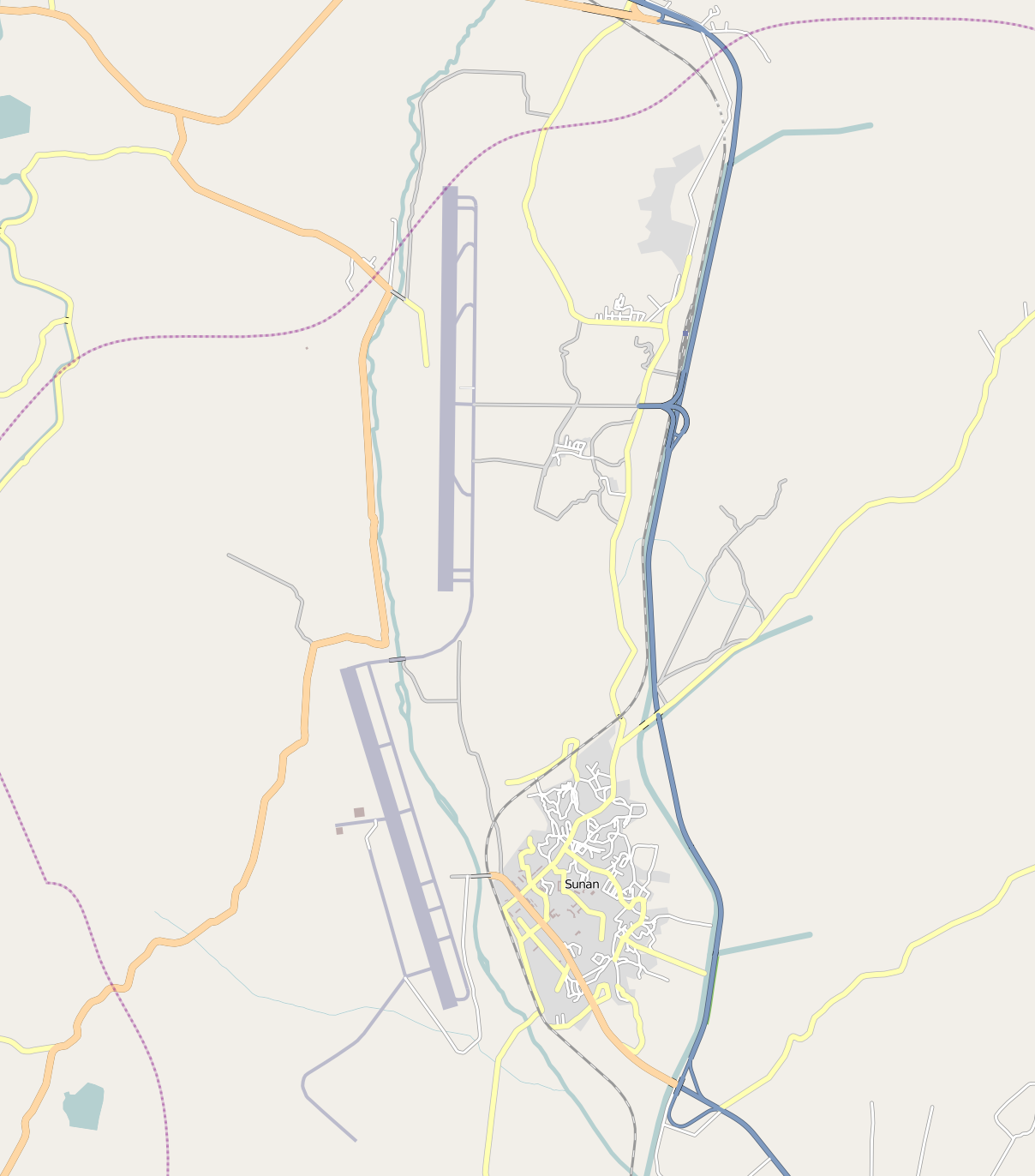 Open Street Map of the Pyongyang Sunan International Airport. The city of Sunan can be seen by the lower runway. The upper runway is marked as the "Sunan-Up North Highway Strip" on lower resolutions of the Open Street Map.